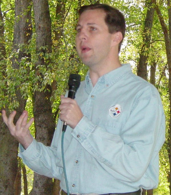 Image of Jeff Habay.